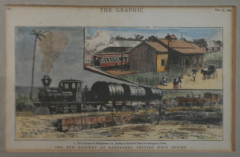 Barbados Railway - The Graphic - 8th February 1882 - displayed in Sunbury House Plantation.